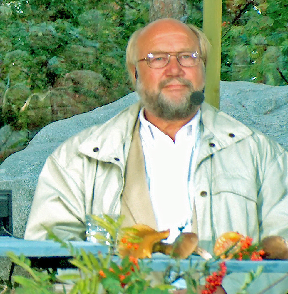 The filming of the tv program The Evening of Nature at Taaborinvuori in Nurmijärvi - Kauri Mikkola